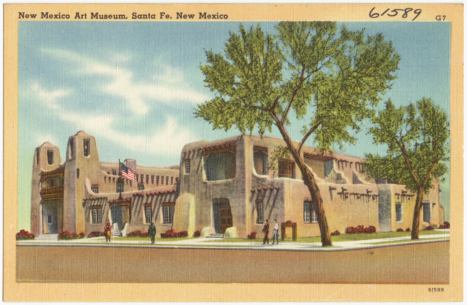 File name: 06_10_015665 Title: New Mexico Art Museum, Santa Fe, New Mexico Created/Published: Pub. by Southwest Arts & Crafts, Santa Fe, New Mexico; Tichnor Bros. Inc., Boston, Mass. Date issued: 1930 - 1945 (approximate) Physical description: 1 print (postcard) : linen texture, color ; 3 1/2 x 5 1/2 in. Genre: Postcards Subjects: Galleries & museums Collection: The Tichnor Brothers Collection Location: Boston Public Library, Print Department Rights: No known restrictions Flickr data on 2011-08-17: Camera: Epson Exp10000XL10000 Tags: postcard, tichnor brothers, New Mexico License: CC BY 2.0 User: Boston Public Library